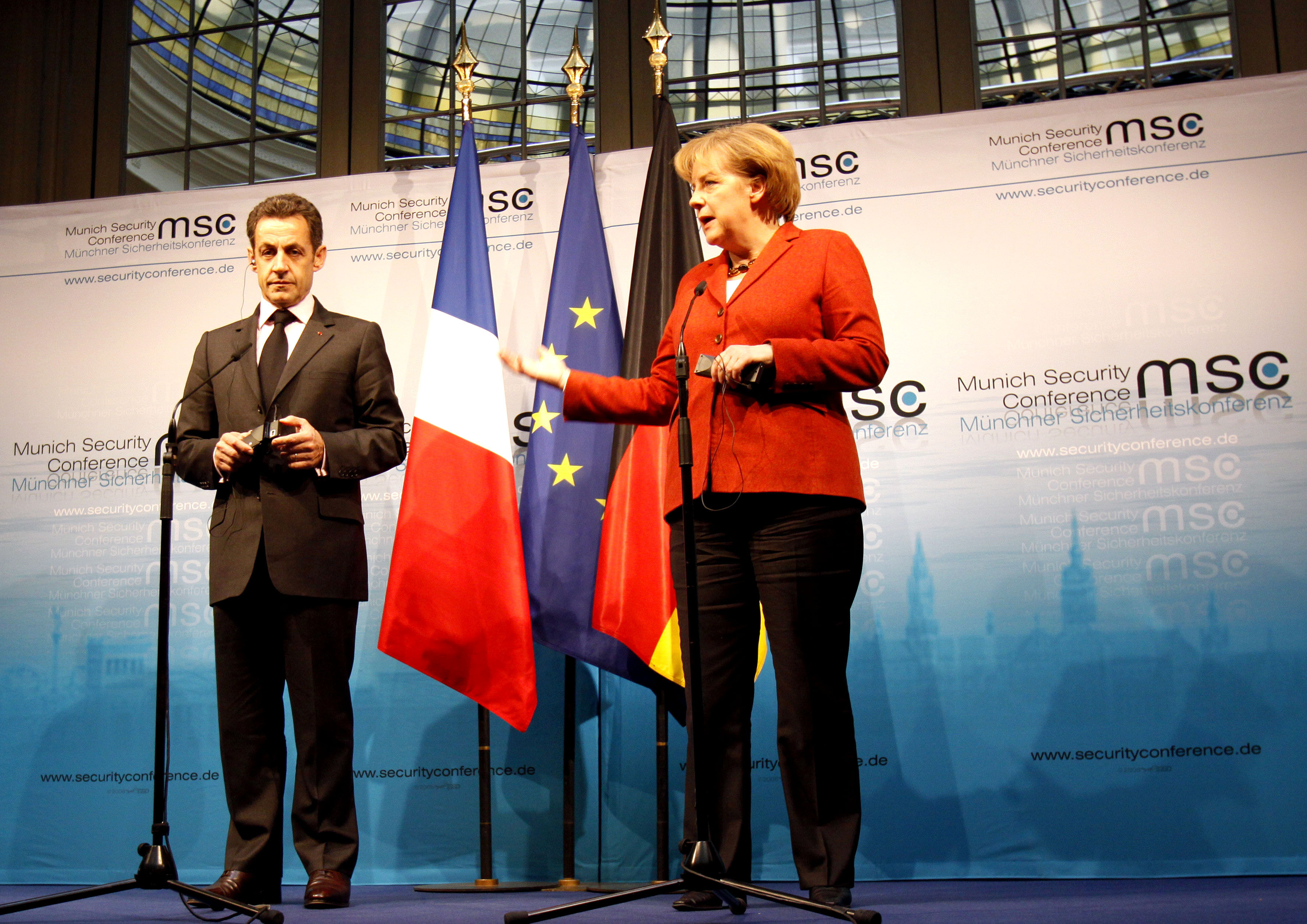 45th Munich Security Conference 2009: The President of the French Republik, Nicolas Sarkozy (ri), Federal Chancellor, Germany at the press statement.